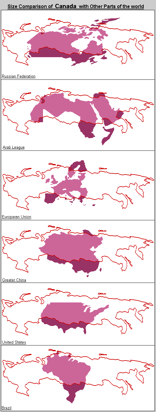 Comparison of Russia with different states and regional blocks. From top to bottom; Canada, the Arab League, the European Union, Greater China, the United States, and Brasil.